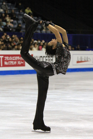 Yuzuru Hanyu performs a Biellmann spin at the 2009-2010 Junior Grand Prix Final